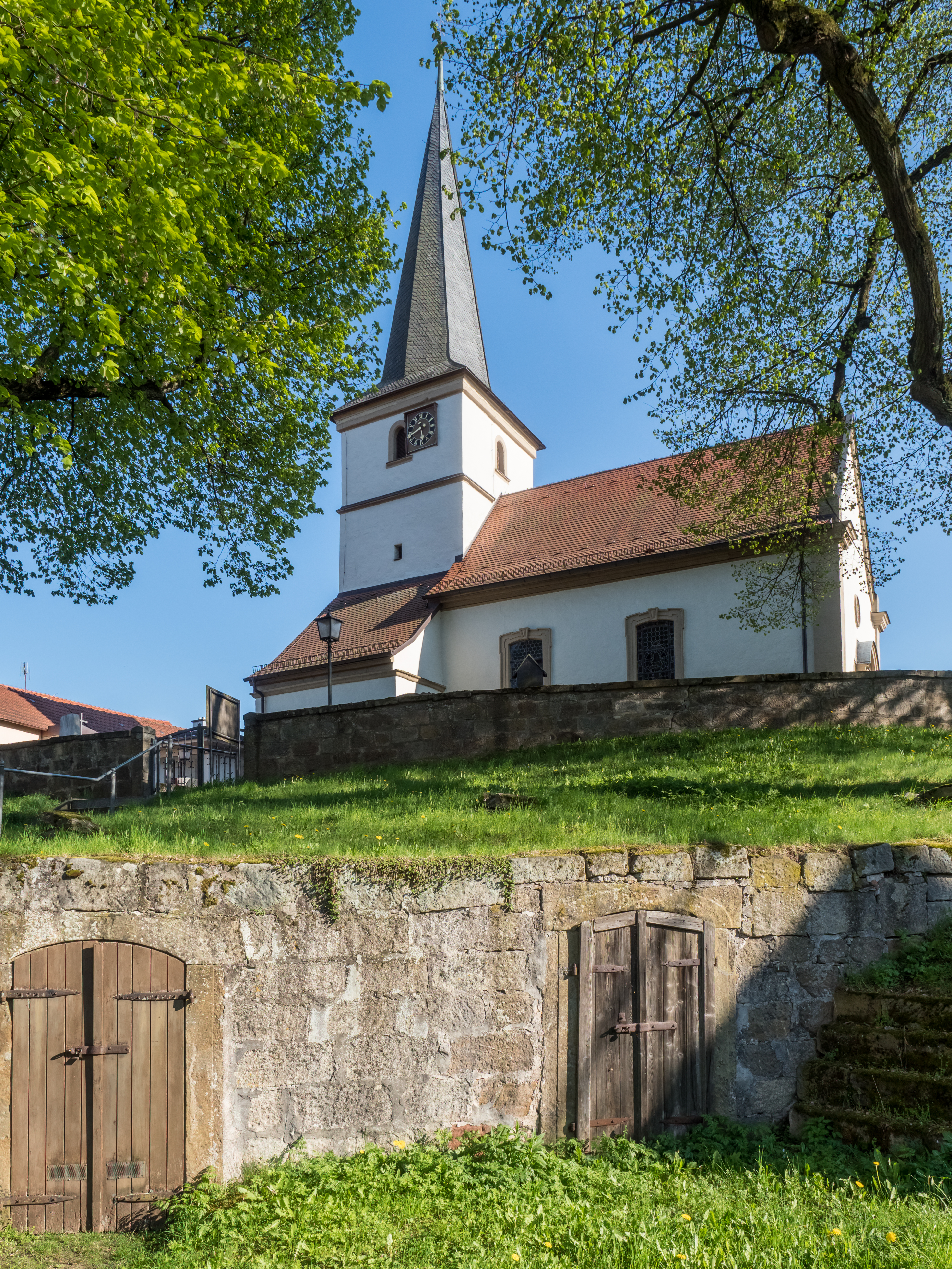 Catholic Parish Church of the Annunciation in Bischwind